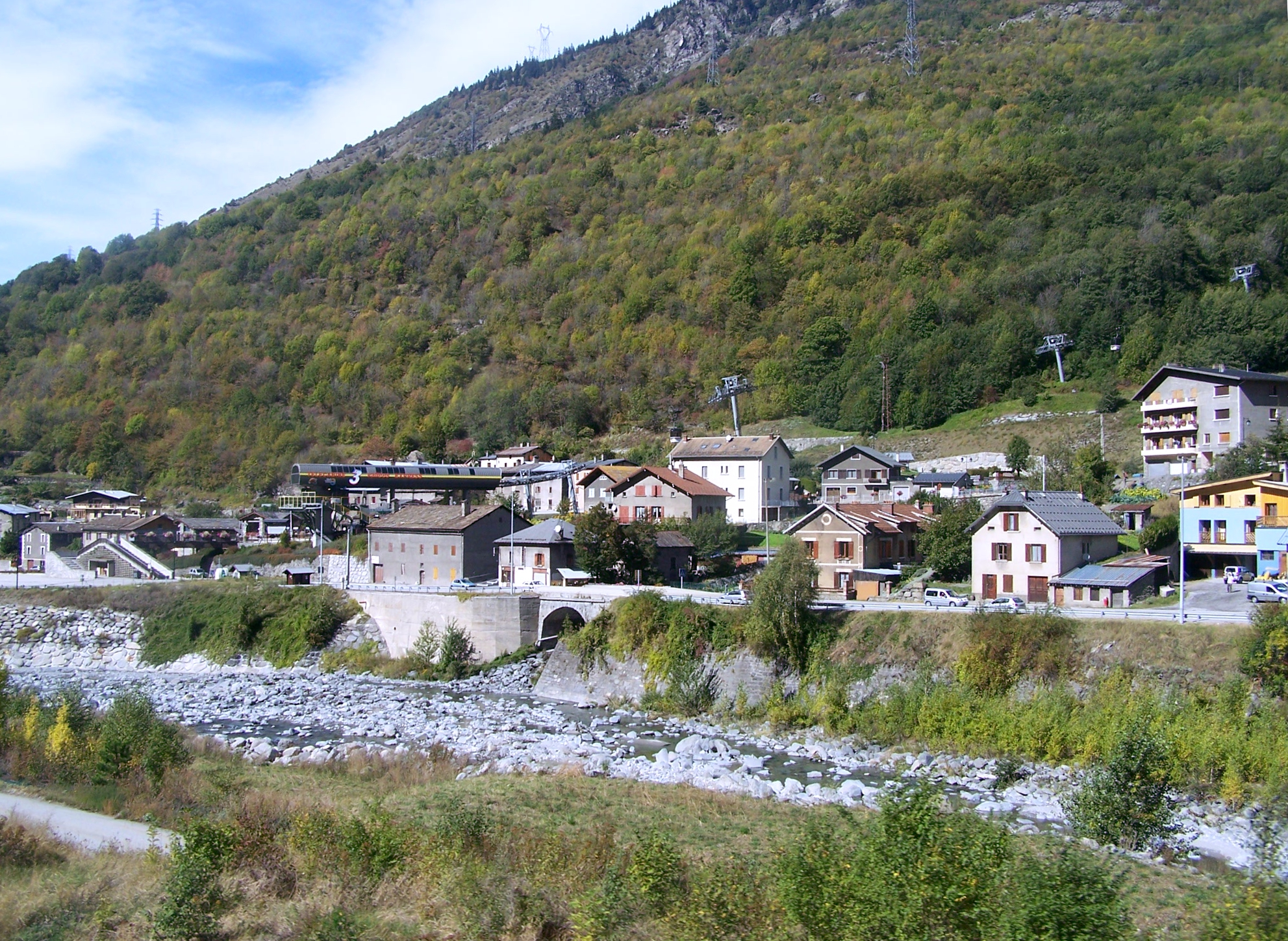 Sight of a part of the Orelle village in the Maurienne valley (Savoie, France), here at the departure of the cableway to Val Thorens ski resort.